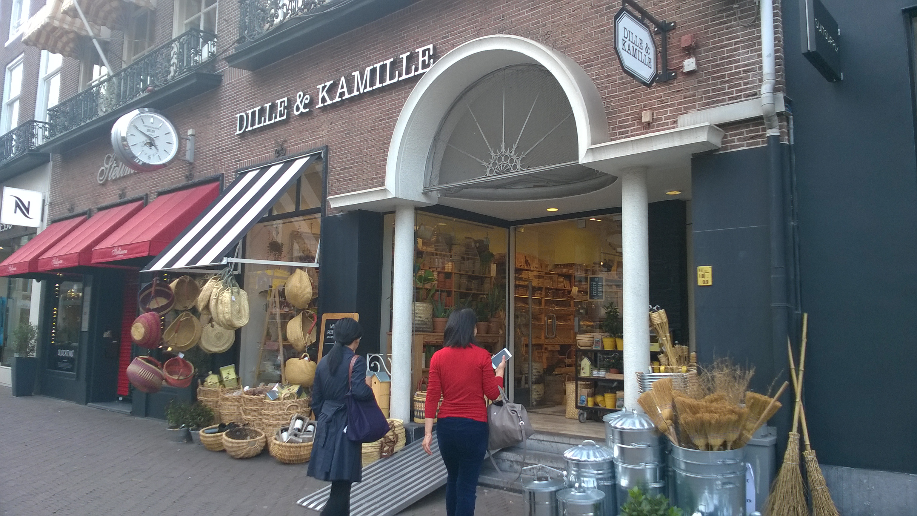 A small local shop in The Hague.